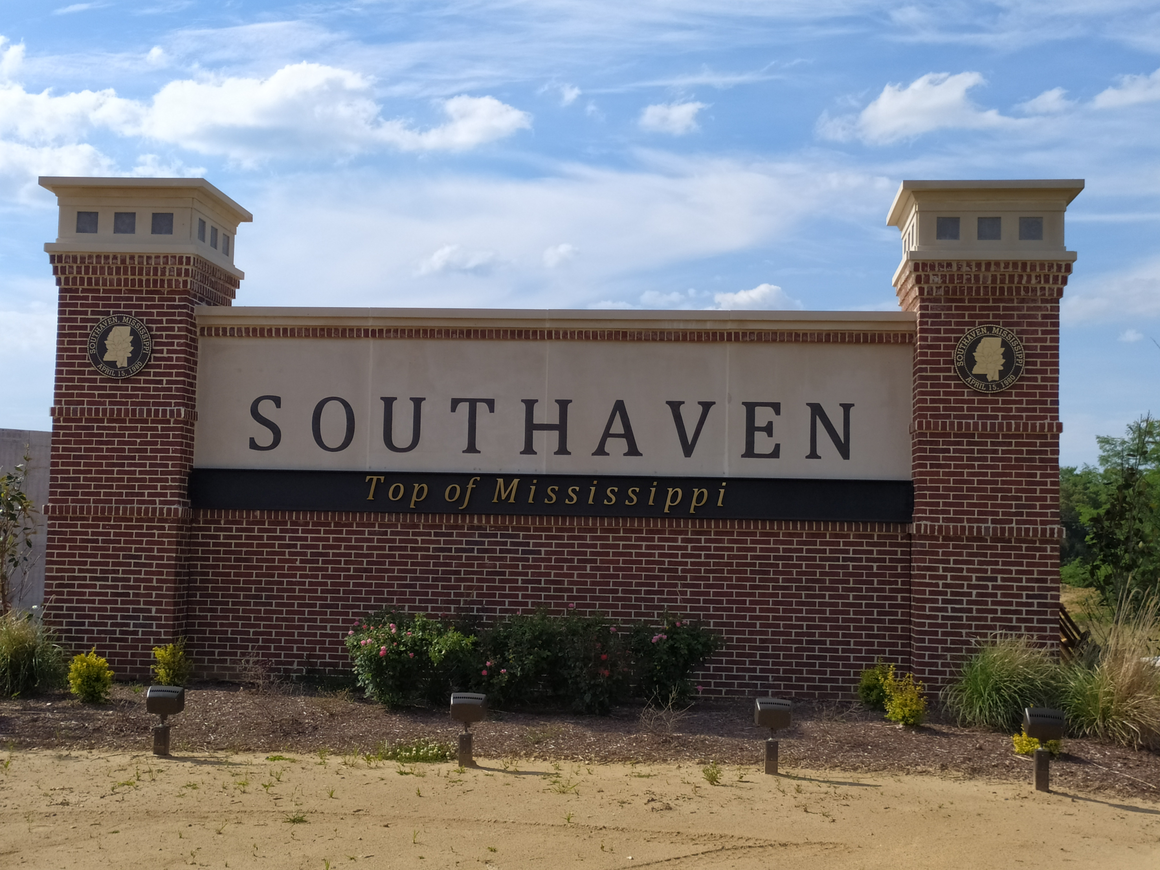 Southaven sign located off I-55